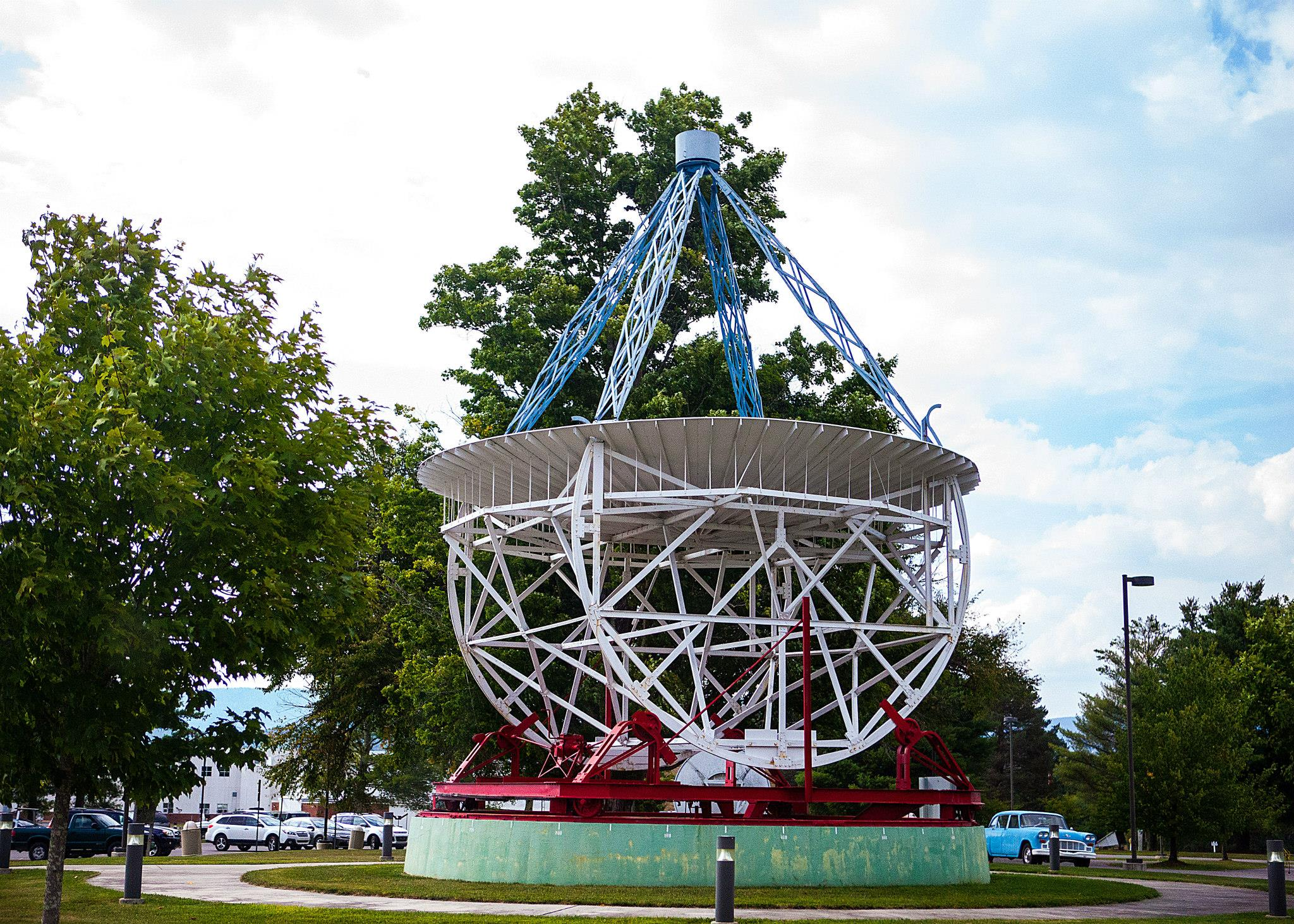 Reber Radio Telescope on the grounds of the National Radio Astronomy Observatory